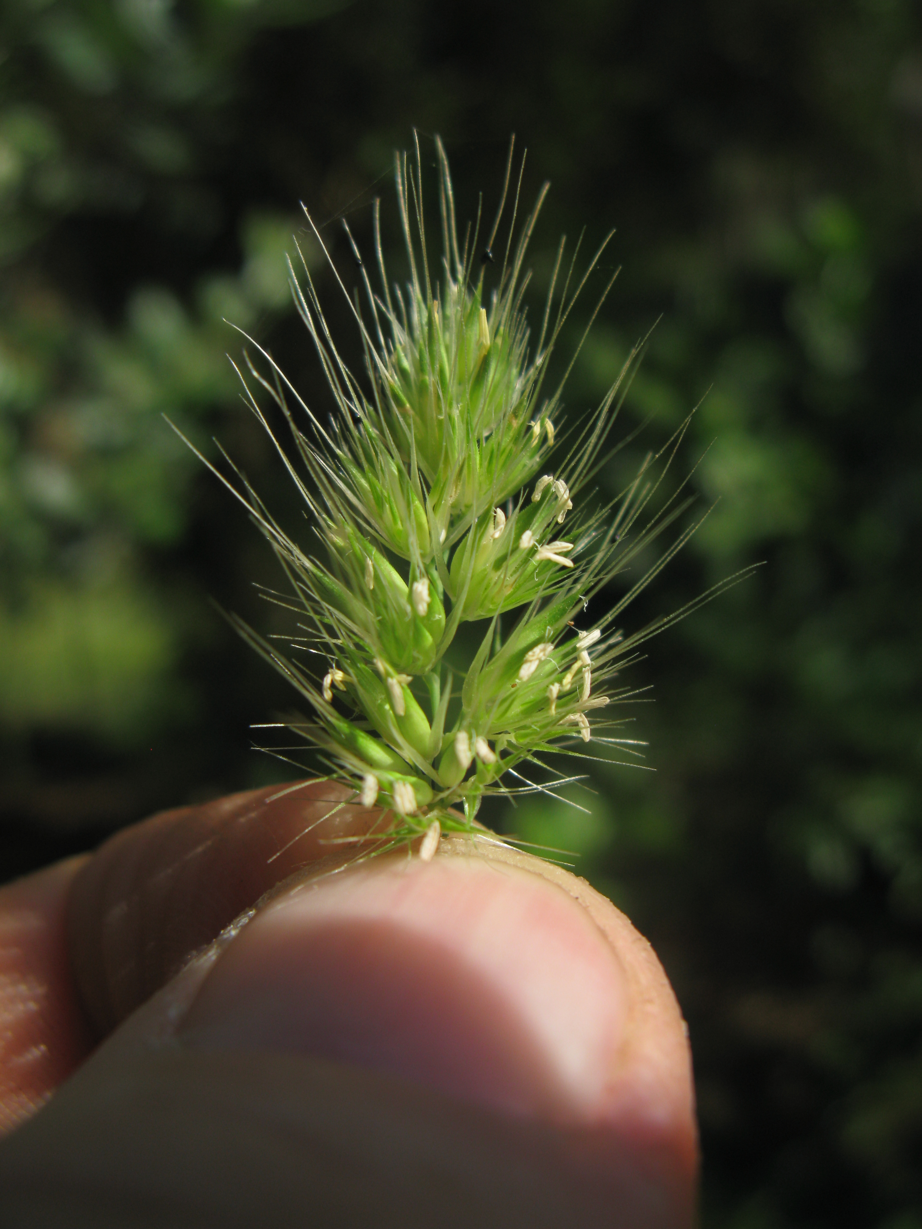 Anthers exposed during flowering.